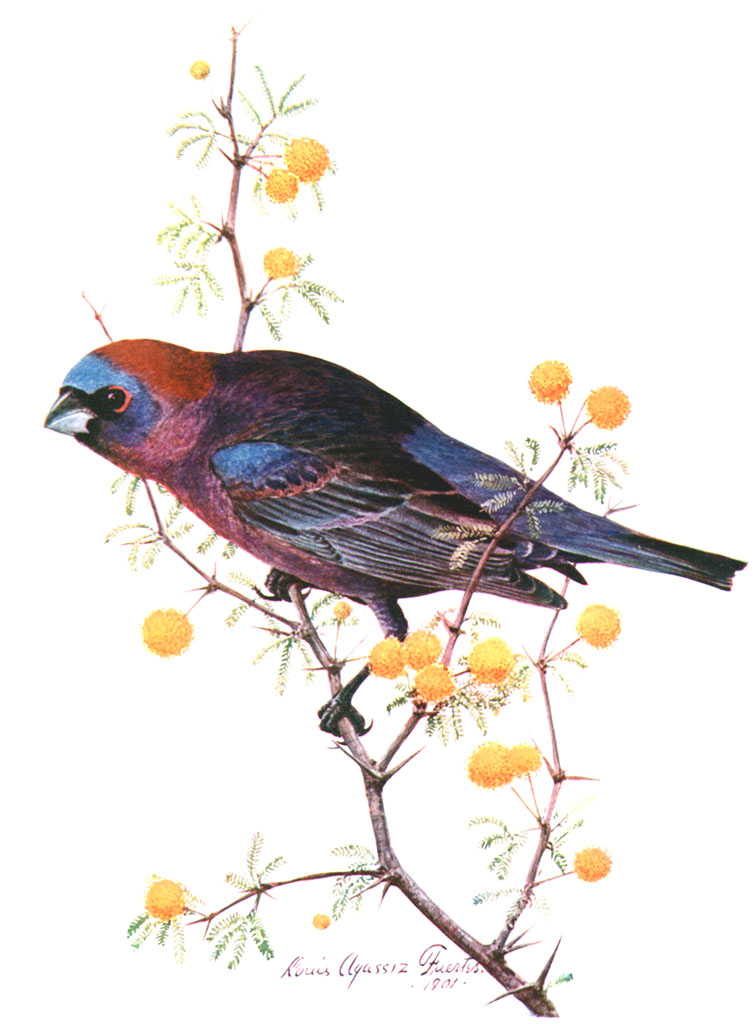 Varied Bunting, Passerina versicolor, offset printing after watercolor